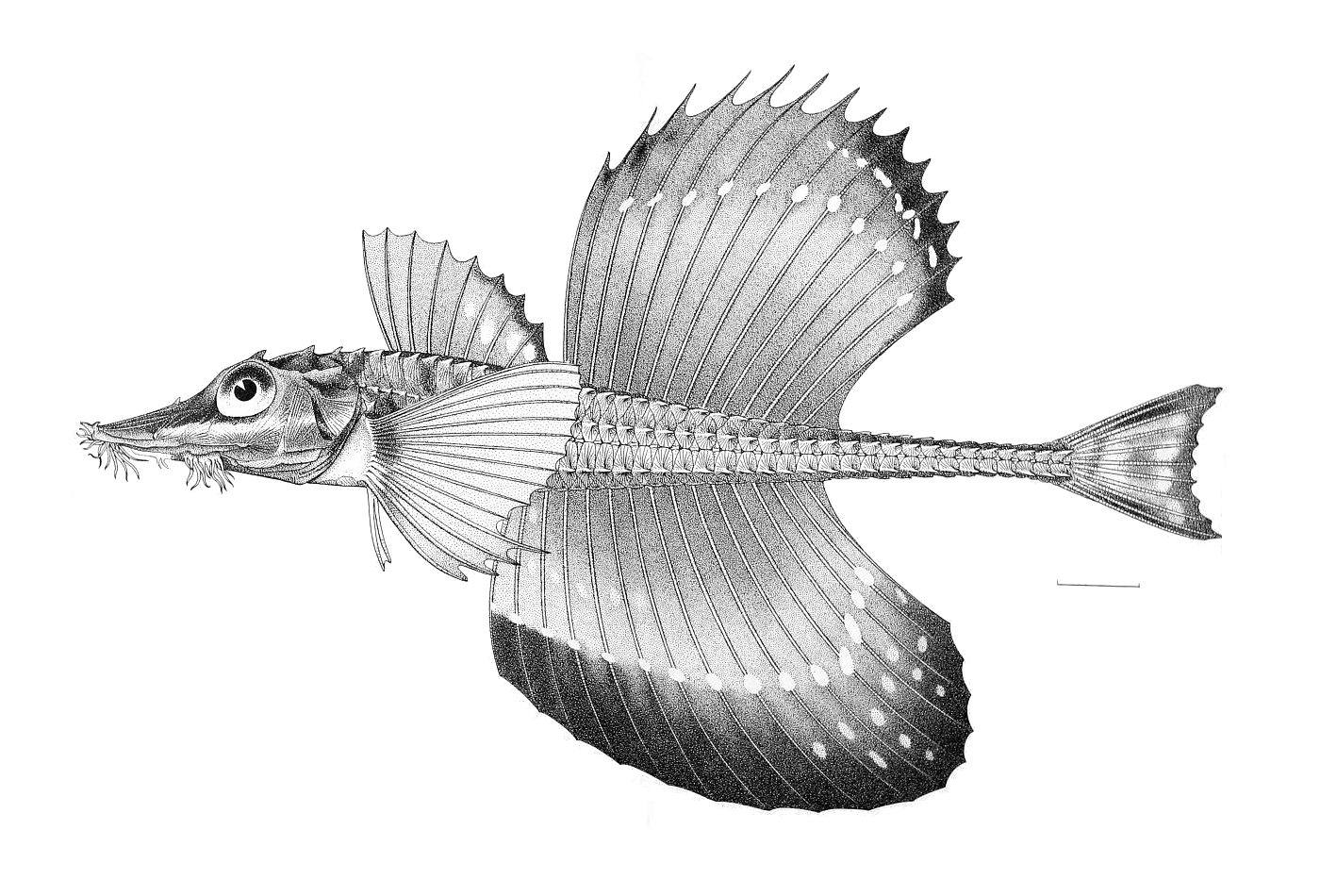 Podothecus sachi (=Draciscus sachi; Scorpaeniformes: Agonidae).